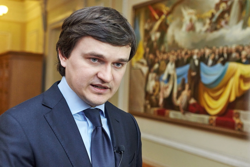 Valeriy Pysarenko, member of Ukrainian Parliament